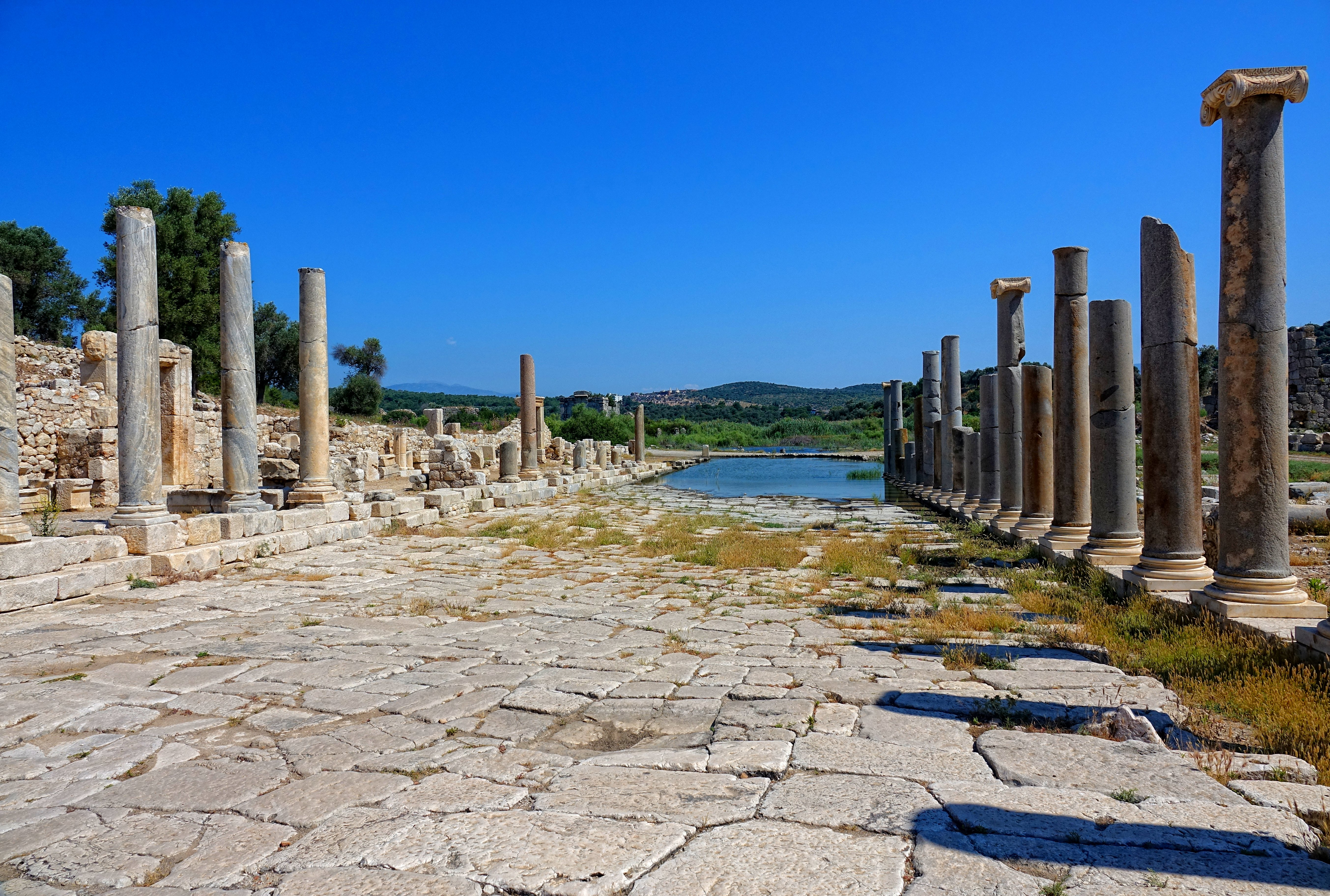 The former main street in Patara is partially submerged, as the river nearby silted up and flooded the original city.